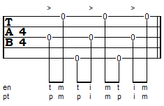 Tablature of the basic forward roll